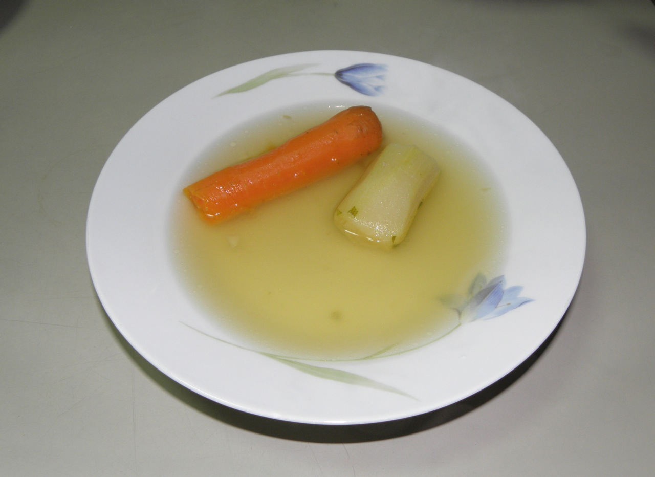 A bowl of Chicken-soup